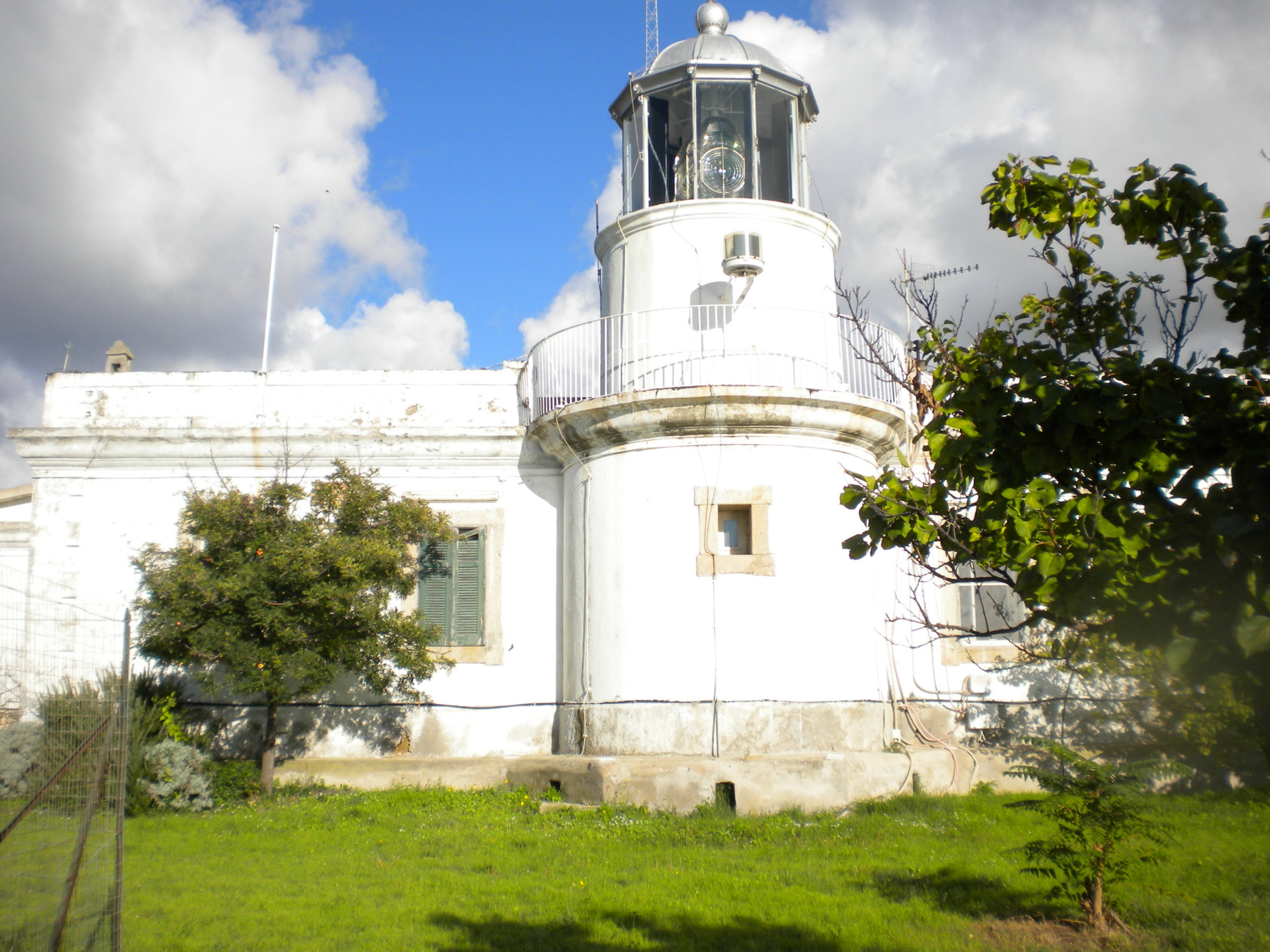 Light-tower in Capo Vaticano (Commune di Ricadi) Calabria.